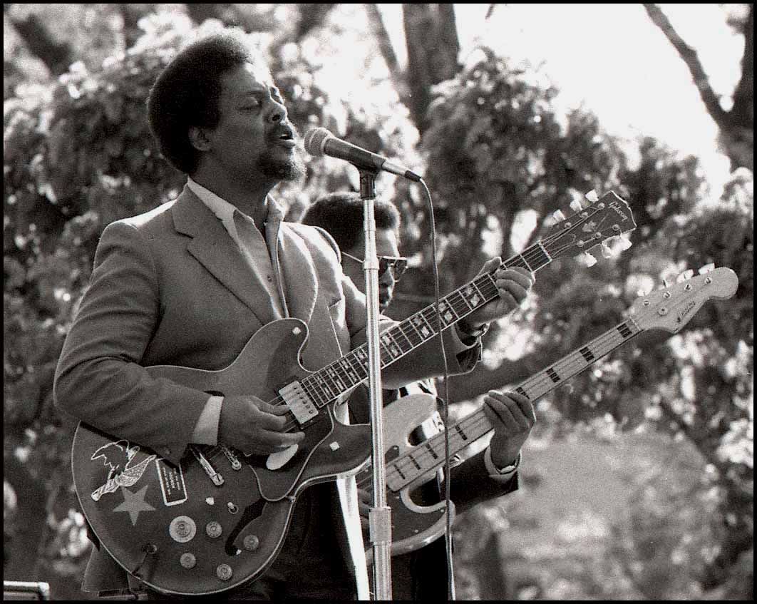 Luther Tucker playing alongside his bassist, December 12 1964 Fountain blues Festival San Jose Ca